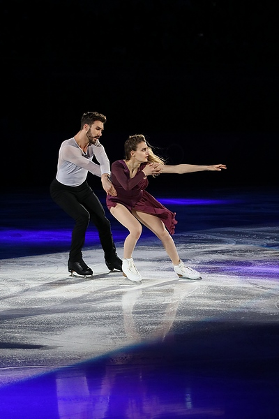 Gala exhibition at the 2018 Winter Olympics